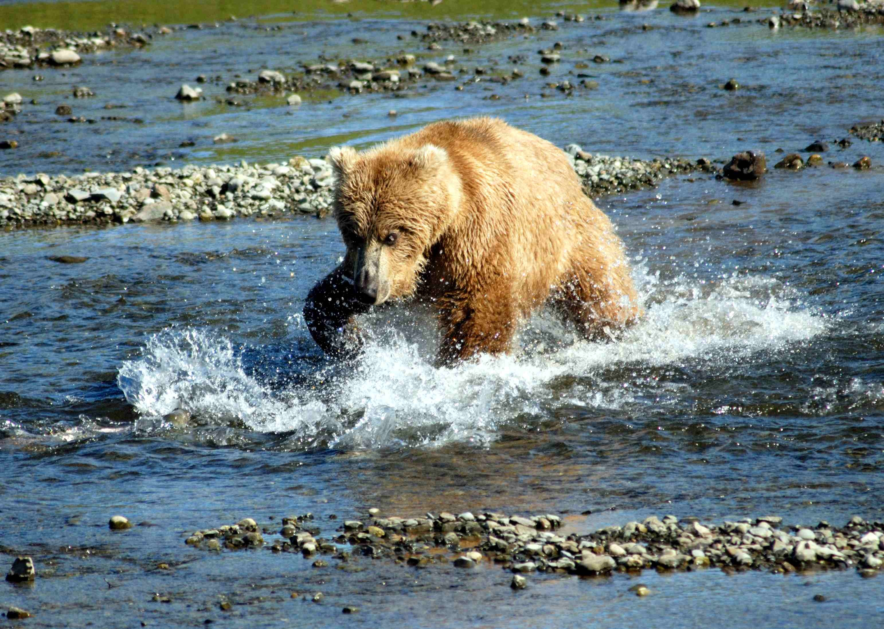 To learn more about Alaska, visit my my Alaskan website.